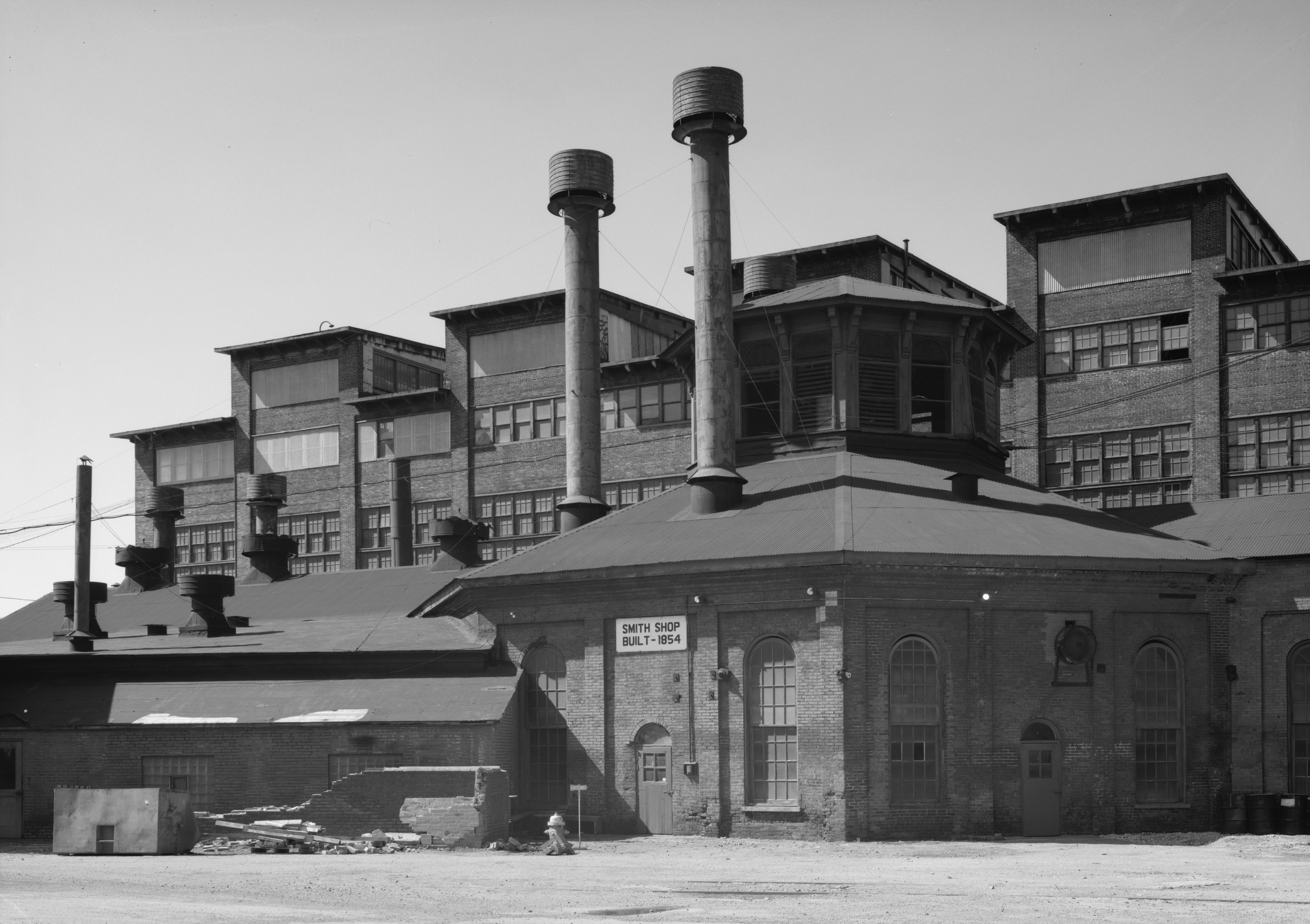 Blacksmith shop at the Cambria Iron Company in Johnstown, Pennsylvania, United States. The iron company complex is a National Historic Landmark.